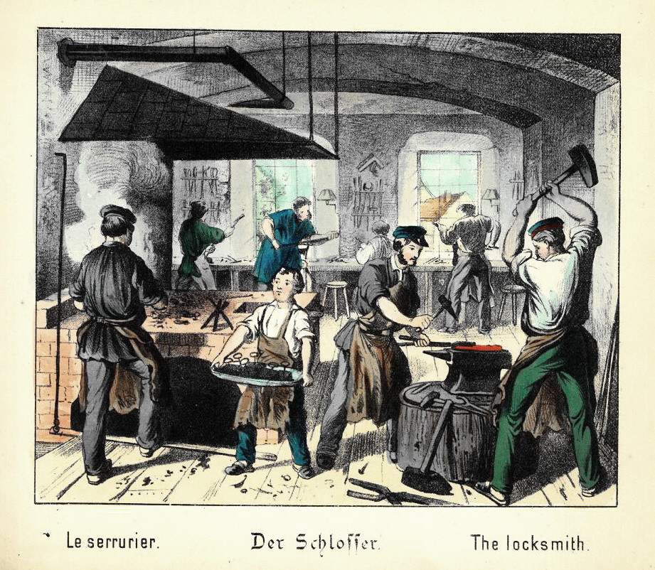 The locksmith